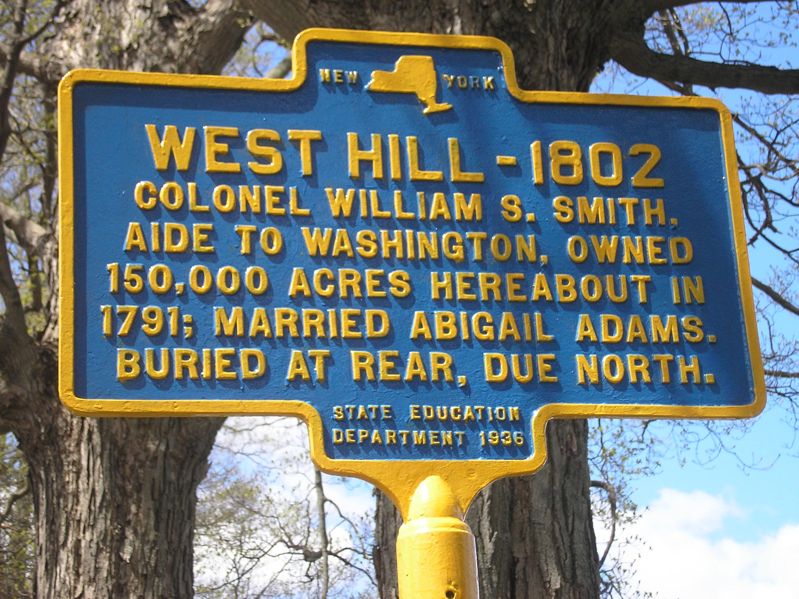 Historic marker of West Hill, the burial spot of Colonel William S. Smith, aide to George Washington. In 1791 he owned 150, 000 acres in the area. He married Abigail Adams "Nabby" daughter of John and Abigail Adams.